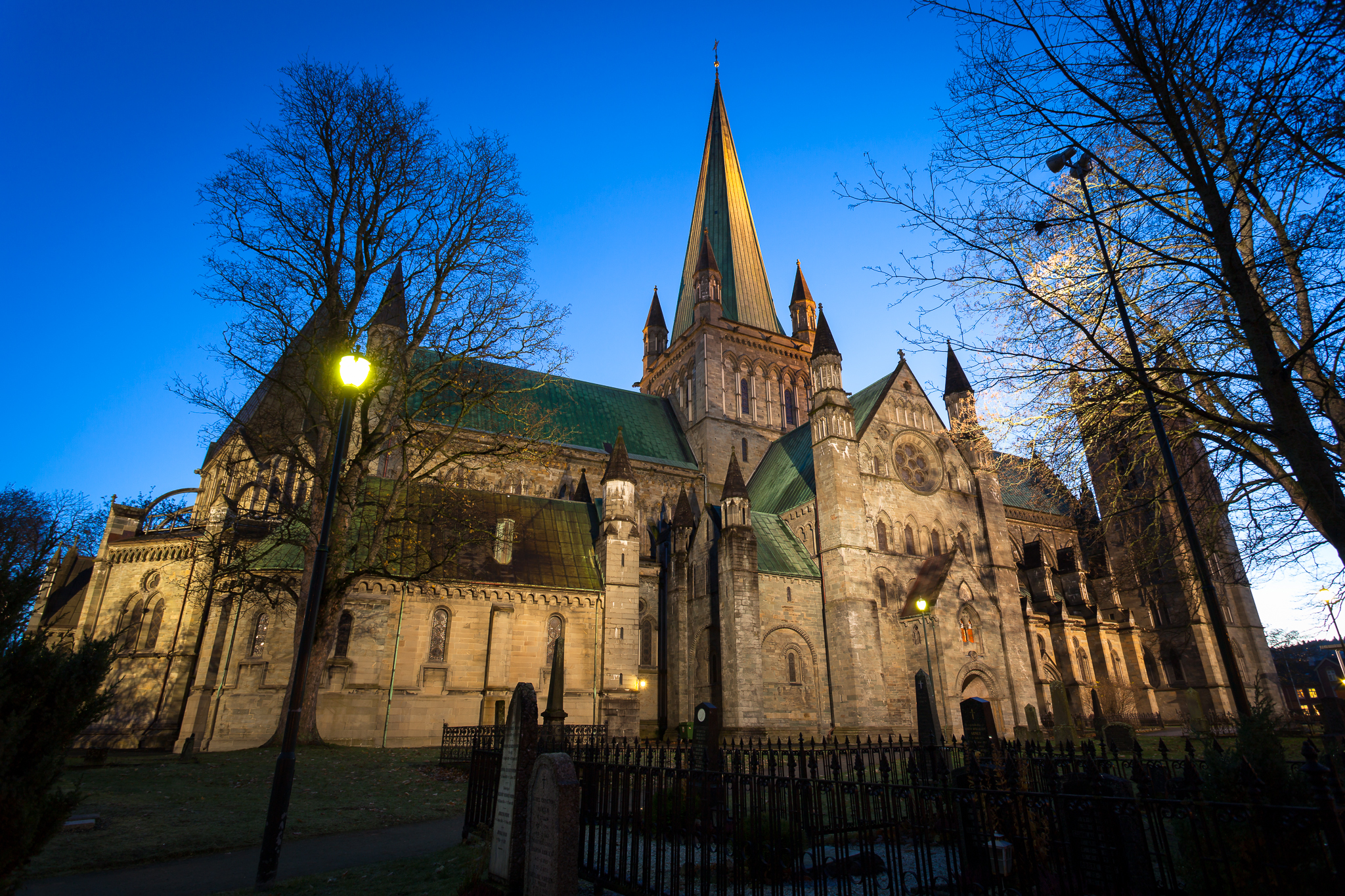 Nidarosdomen Trondheim Norway